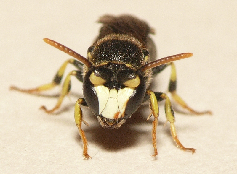 Hylaeus dilatatus/annularis, male. Location: Renkum - Telefoonweg (The Netherlands)